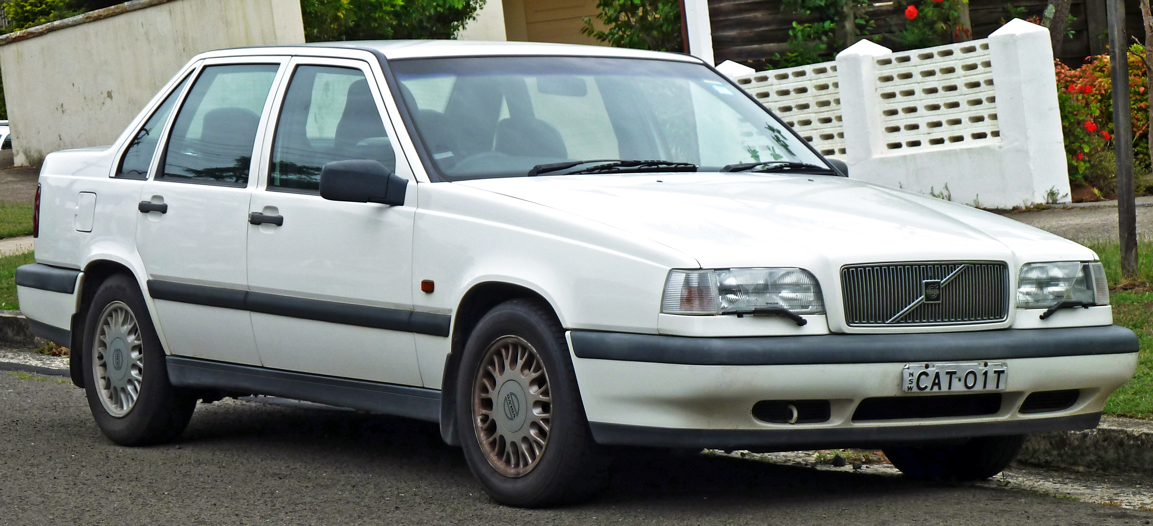 1995 Volvo 850 SE 2.5 sedan. Photographed in Bellevue Hill, New South Wales, Australia.